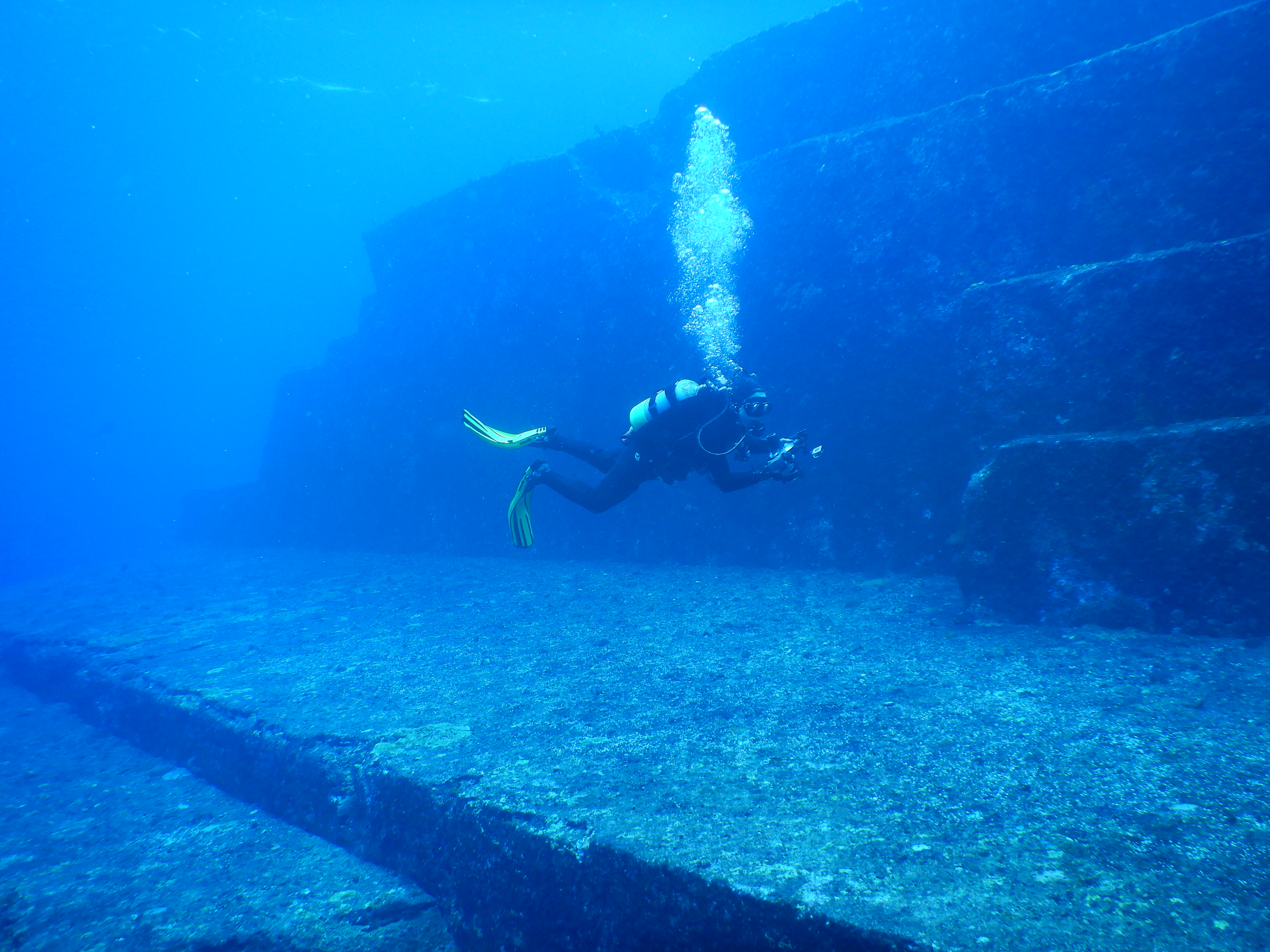 A part of Yonaguni Monument that is called the Main Terrace, underwater near Yonaguni Island, Japan